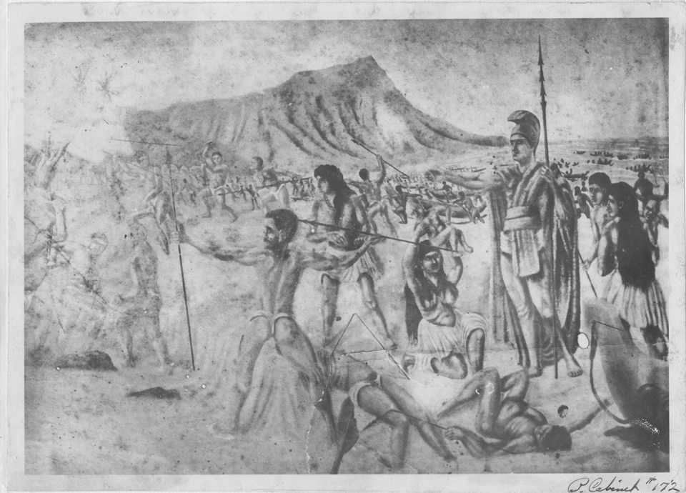 Kamehameha I going into battle.